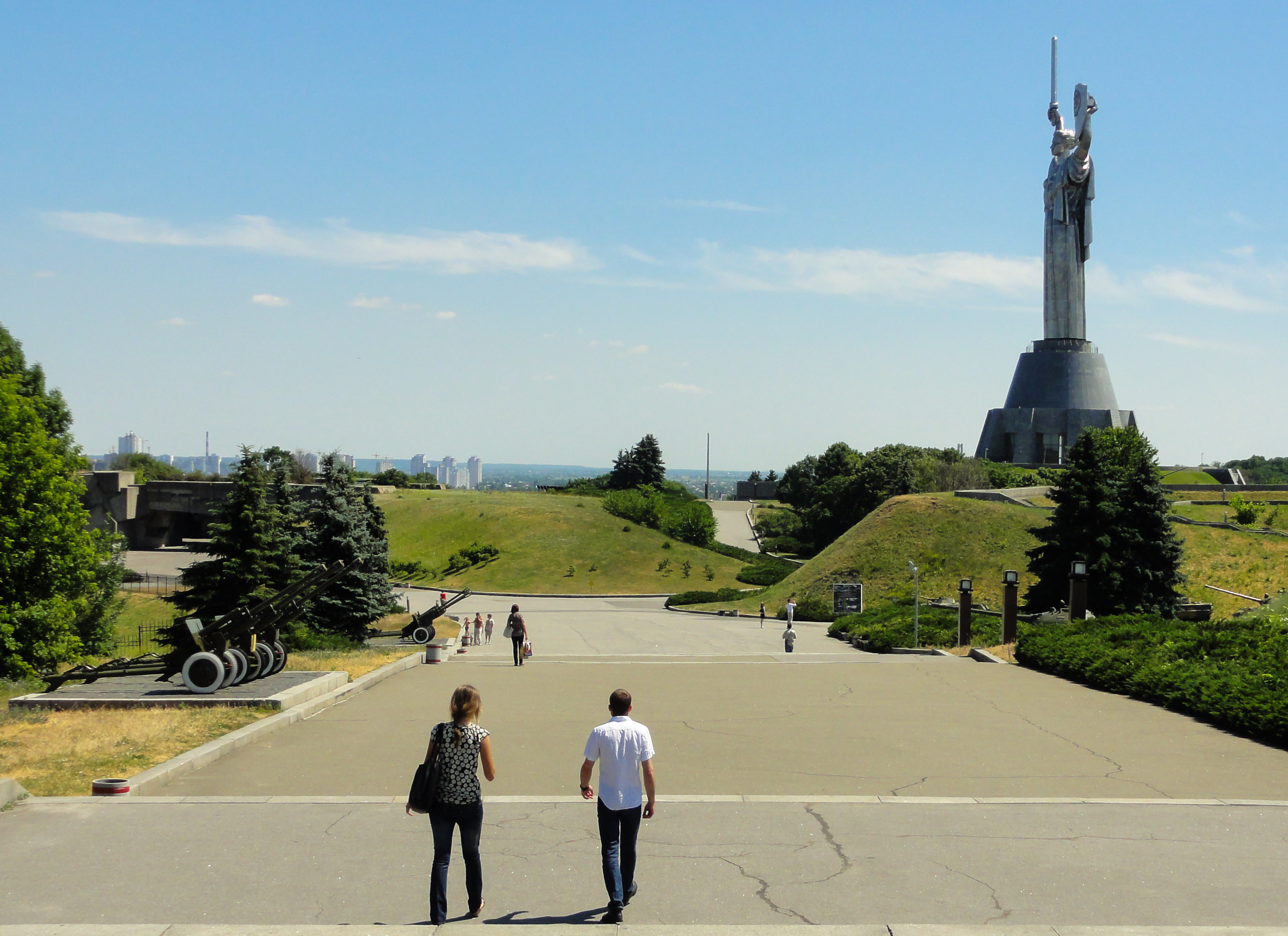 Museum of the Great Patriotic War in Kiev. On the right is the Monument to the Motherland